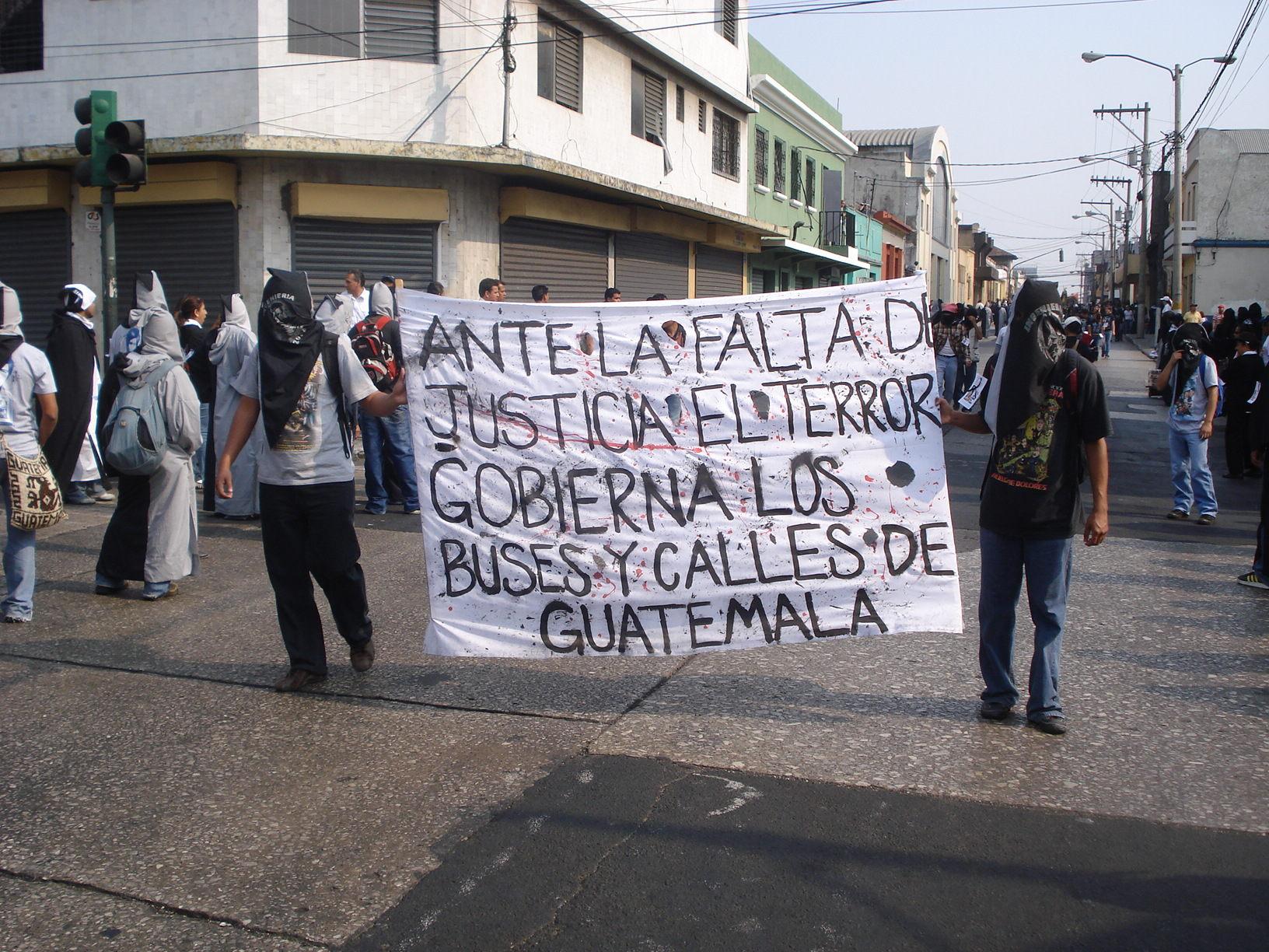 Students in Guatemala City protesting against impunity during the Huelga de Dolores. 2009